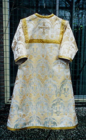 Sticharion